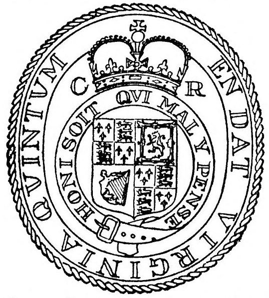 Engraving depicting the Seal of Virginia from the Restoration period under King Charles II, though the same seal was also used under James II and William and Mary.